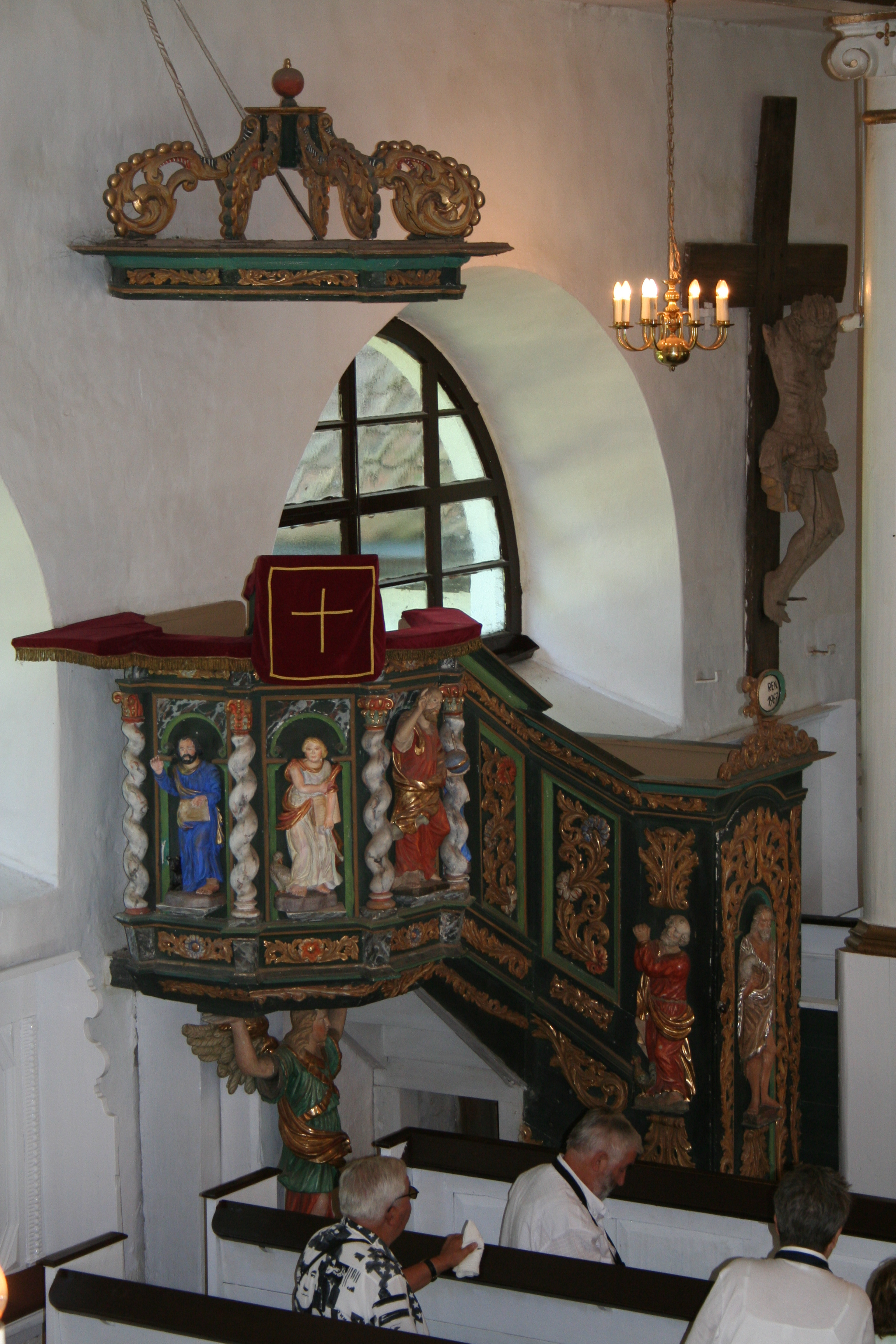 Lutheran Church in Sorkwity